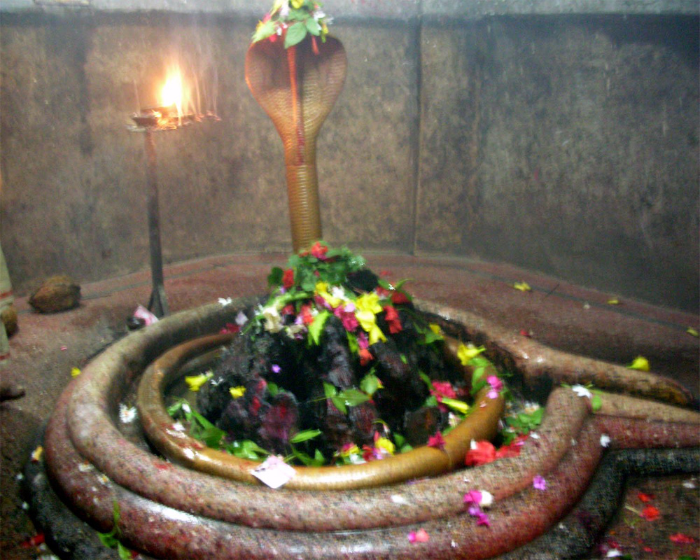 Laxmaneshwar Temple in Kharod, Chhatisgarh, India